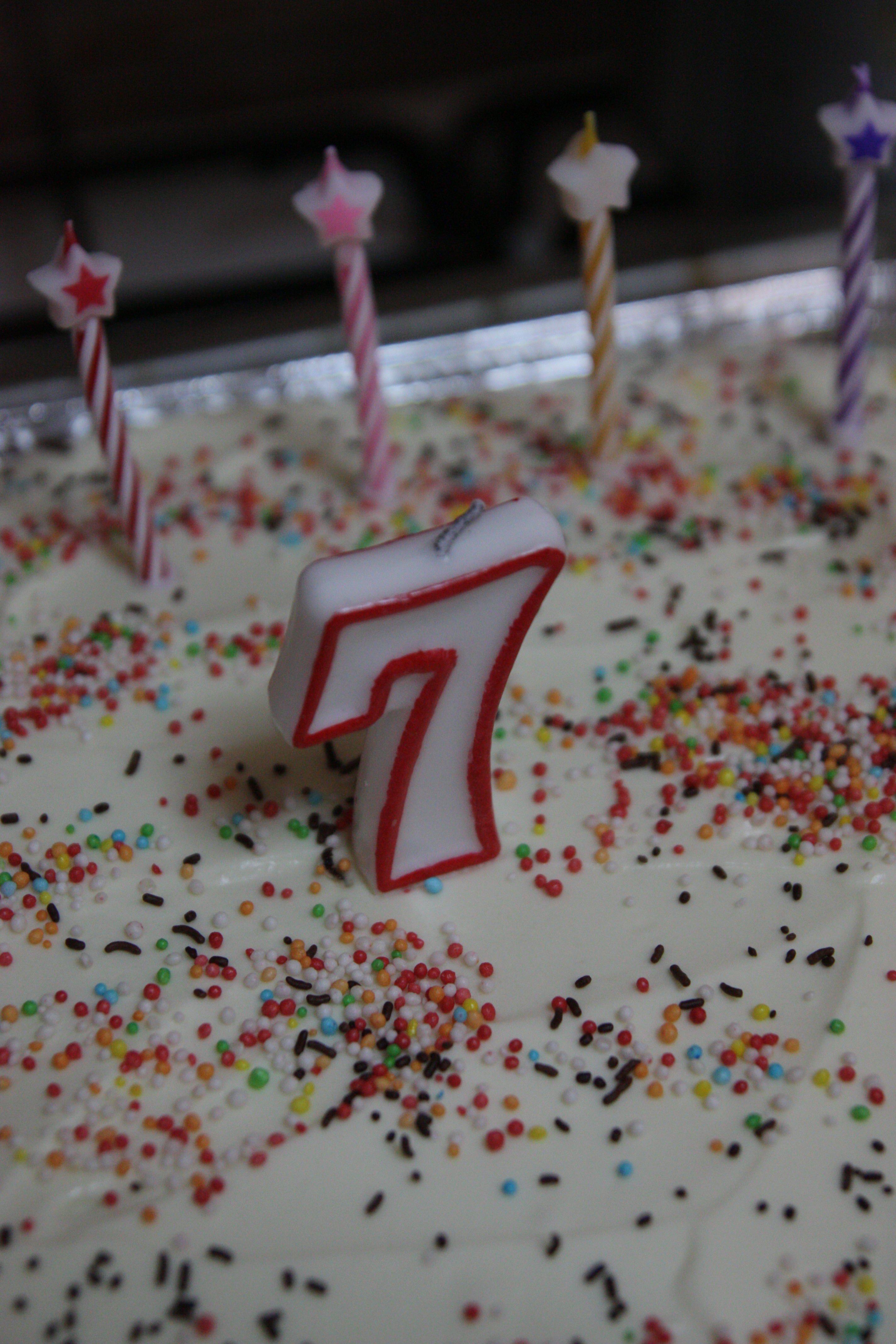 Candle in the form of the number 7 on the birthday cake with white icing and colored candies